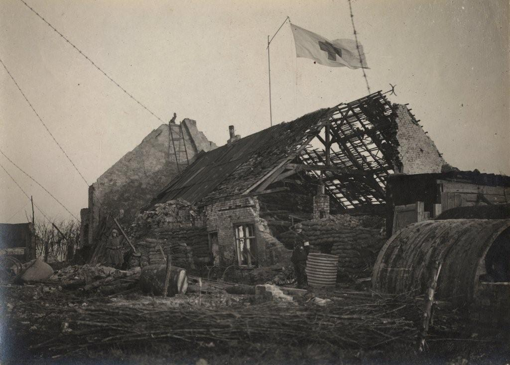 first aid post